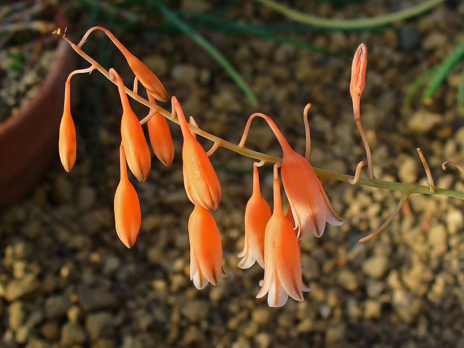 Aloe bellatula, Asphodeliaceae, inflorescence; Botanical Garden KIT, Karlsruhe, Germany.